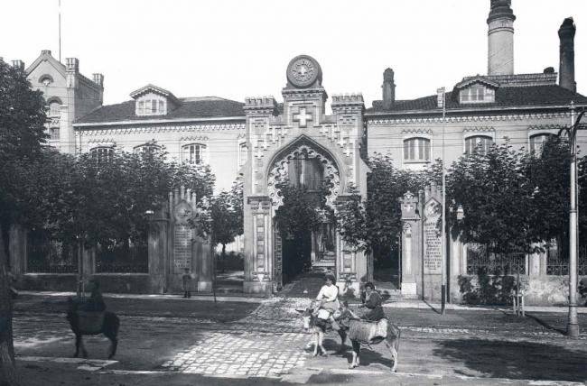 "La Cruz Blanca" brewery (Santander, Cantabria), beginning of the 20th Century. Author unknown, picture from the Josep Thomas i Bigas (died 1910) collection.